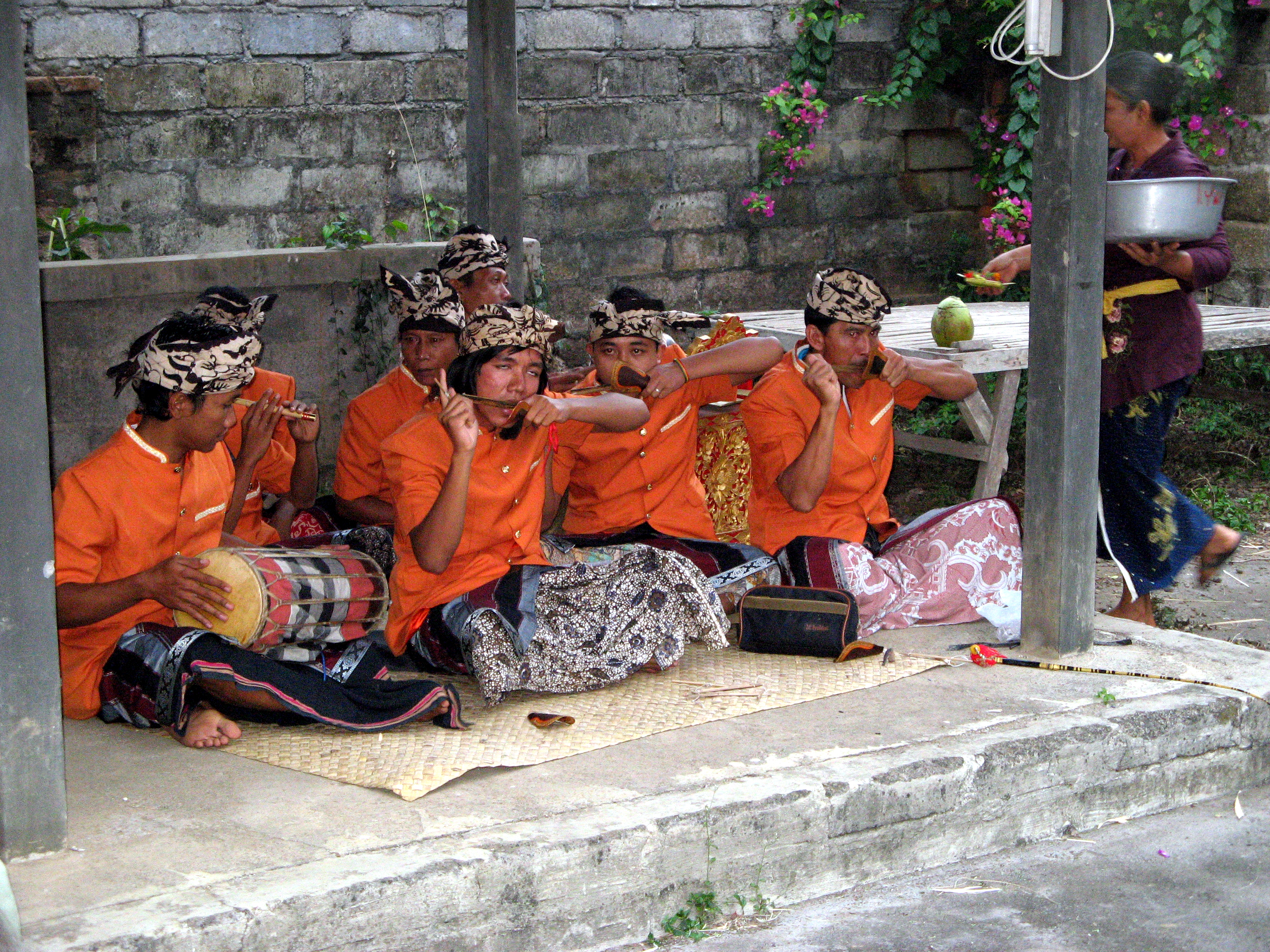 Even the simplest village in Bali has a show to put on. The musical instruments here consist of dried palm stems, split into small pieces, and the necessary drum. The musicians accompany a frog dance, seen on the next pages.